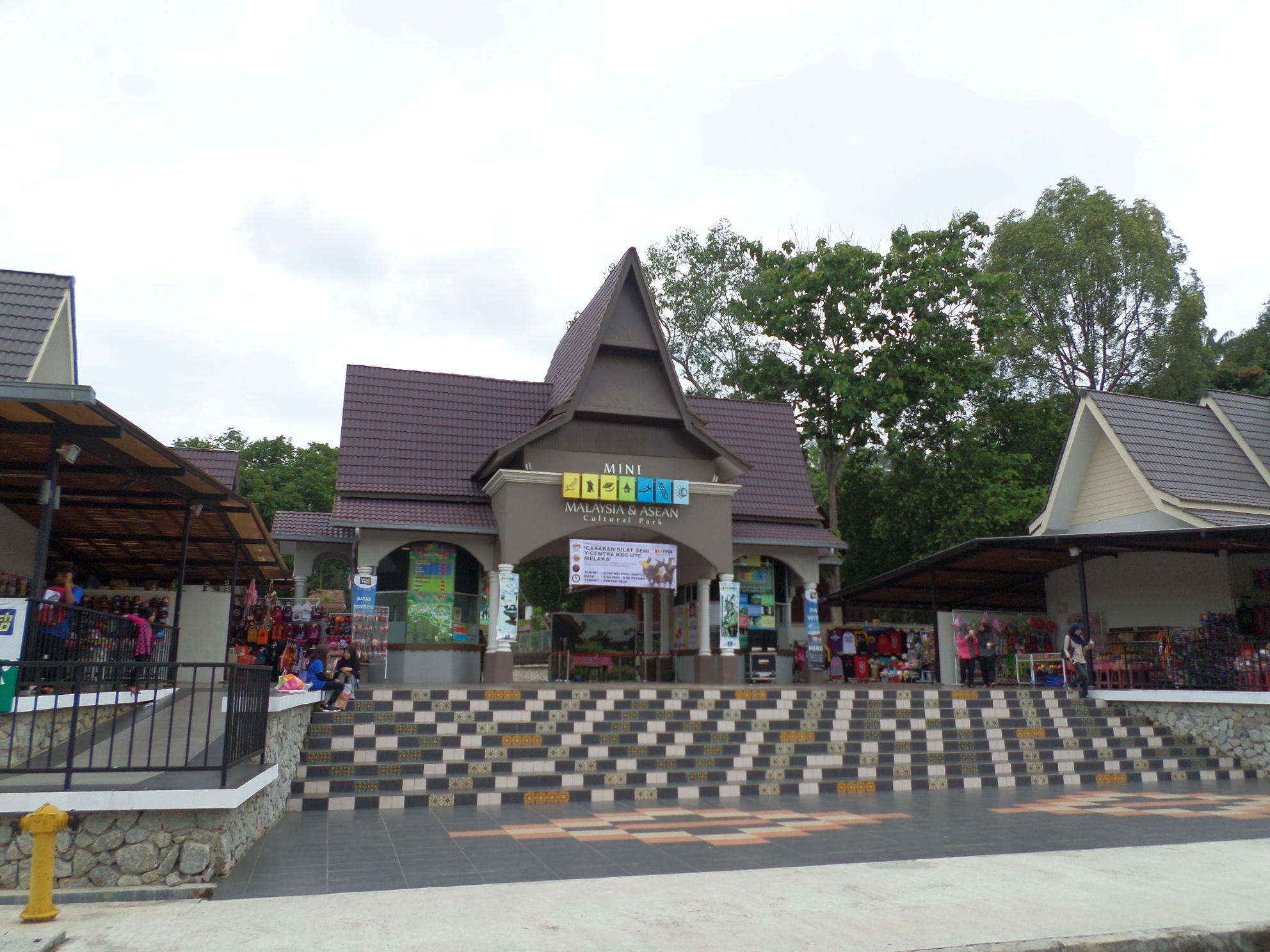 Mini Malaysia and ASEAN Cultural Park, Ayer Keroh, Malacca, Malaysia